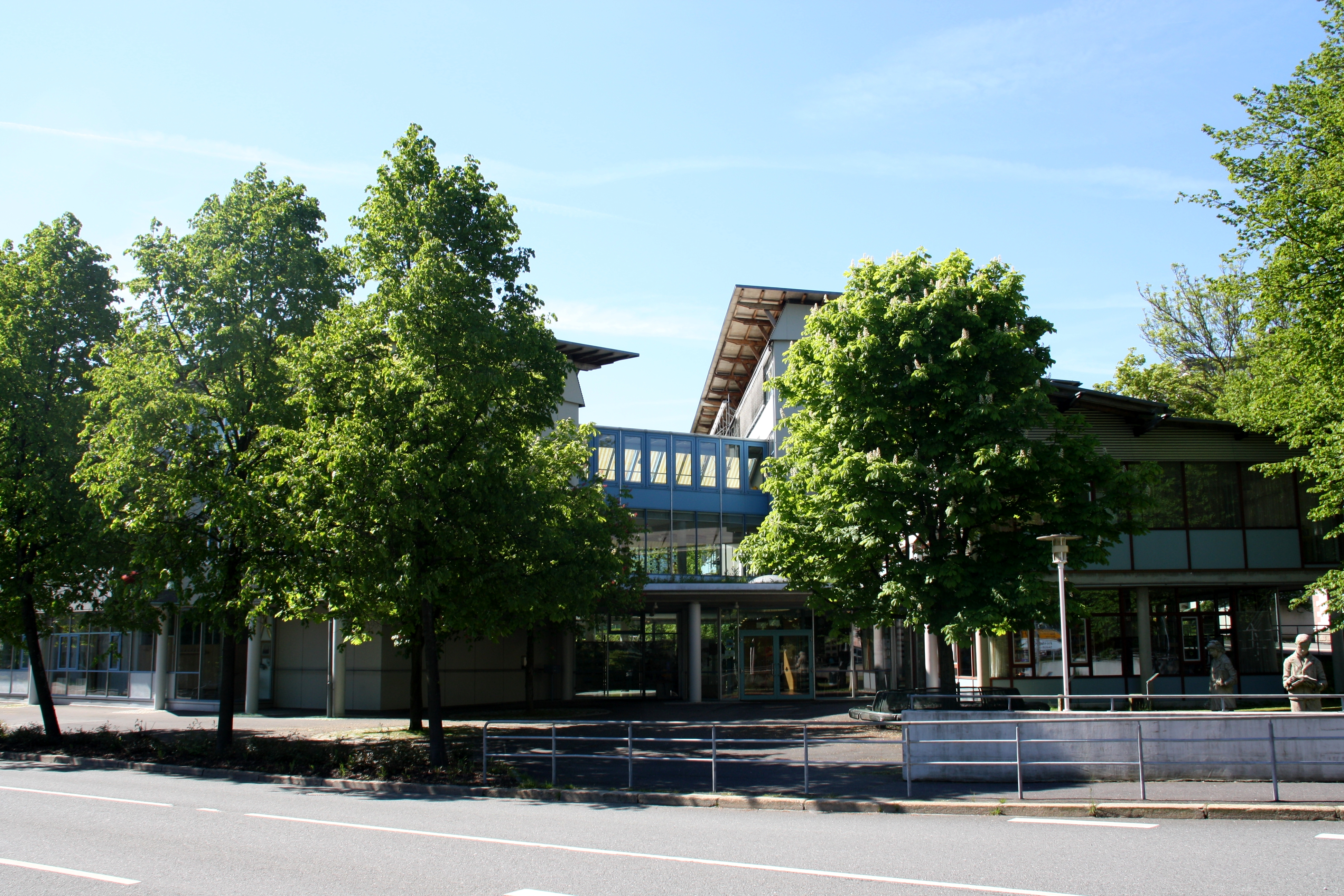 Elementary school of Schönwald